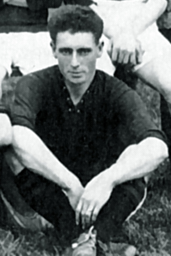 York City players line-up before the team's first home match on 9 September 1922